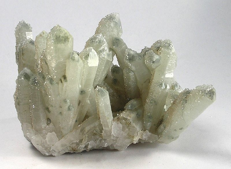 Apophyllite, Quartz, Fluorite Locality: Bor Pit (Boron Pit; Bor Quarry), Dal'negorsk B deposit, Dal'negorsk (Dalnegorsk; Tetyukhe; Tjetjuche; Tetjuche), Primorskiy Kray, Far-Eastern Region, Russia (Locality at ) Size: 11.5 x 9.2 x 7.5 cm. A cluster of tall, slender, elegant quartz crystals, sparkling with little apophyllites, and with phantoms of green fluorite inside the terminations. A sizeable and dramatic Dal'negorsk piece. These interesting combination pieces came out around 2005.